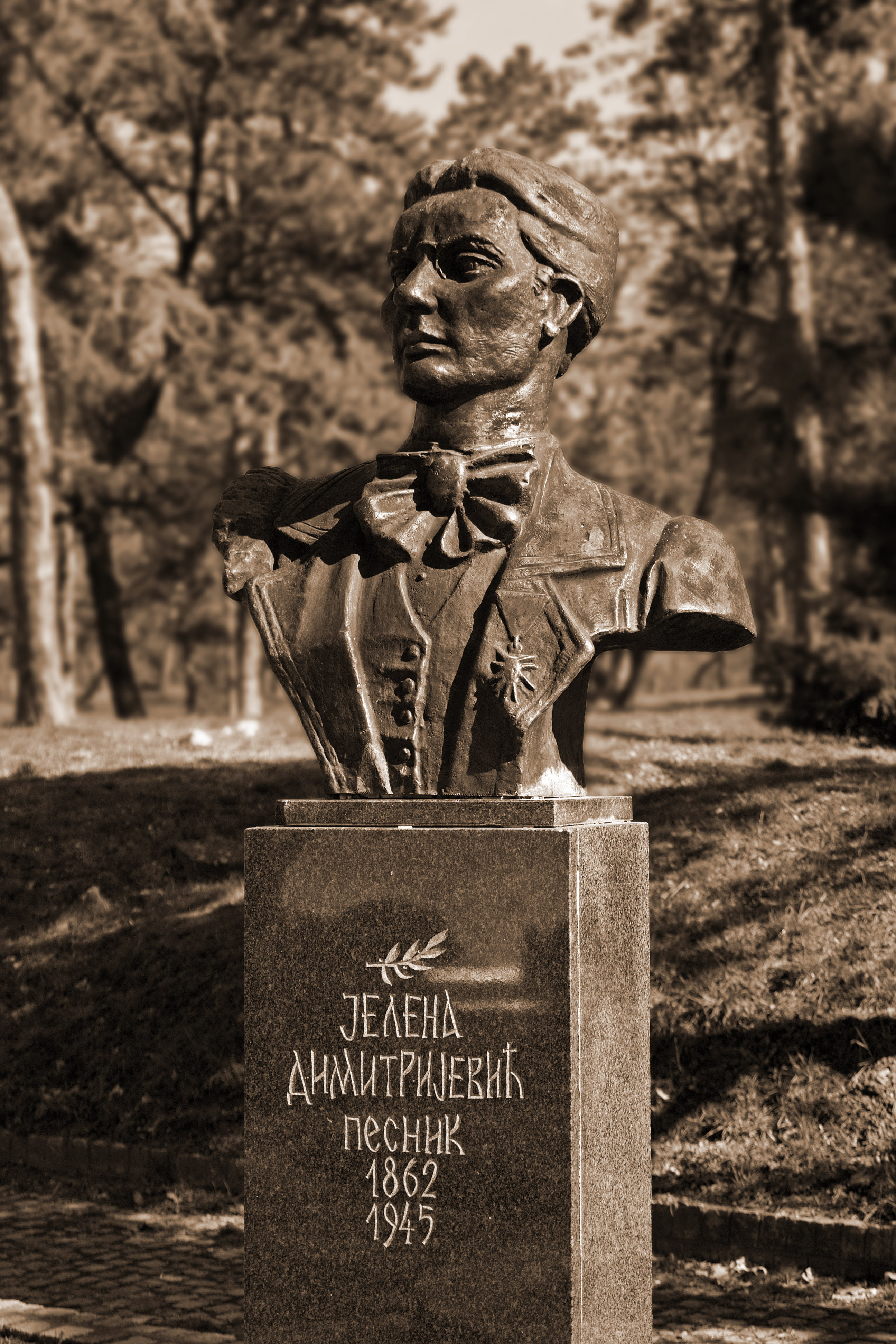 Биста Јелене Ј. Димитријевић на Нишкој тврђави